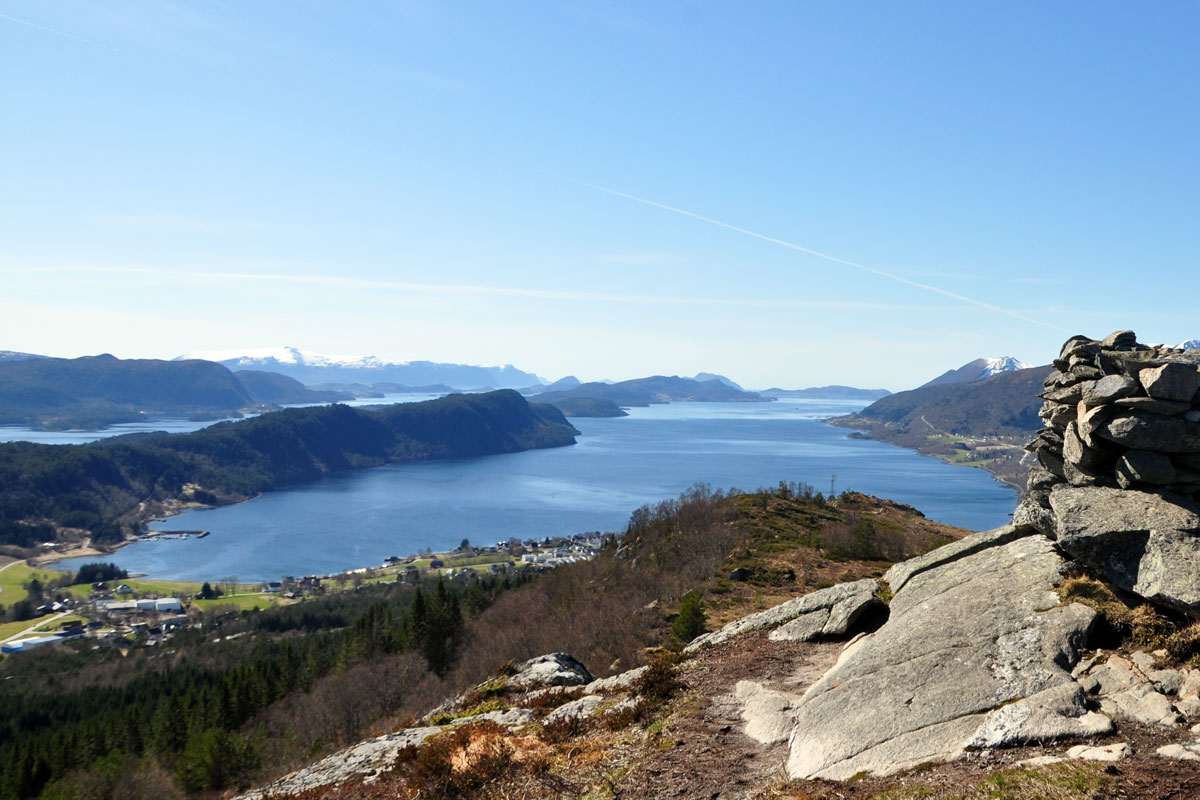 Grytafjorden seen from Ramnfloget towards west.